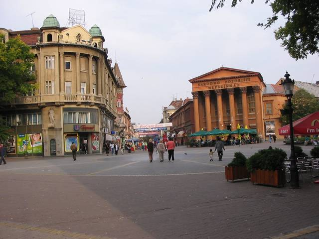 Subotica